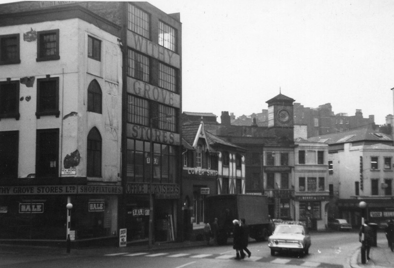 Withy Grove, Manchester 1n 1967. All these buildings have been demolished. The Arndale Centre is here now.